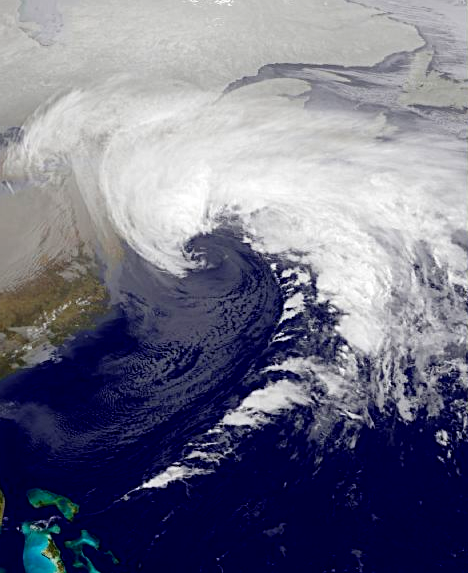 On February 8, 2013, a large nor'easter system (Nicknamed Blizzard Nemo by the Weather Channel) with pressures below 990 mbar was moving northwards along the United States East Coast.